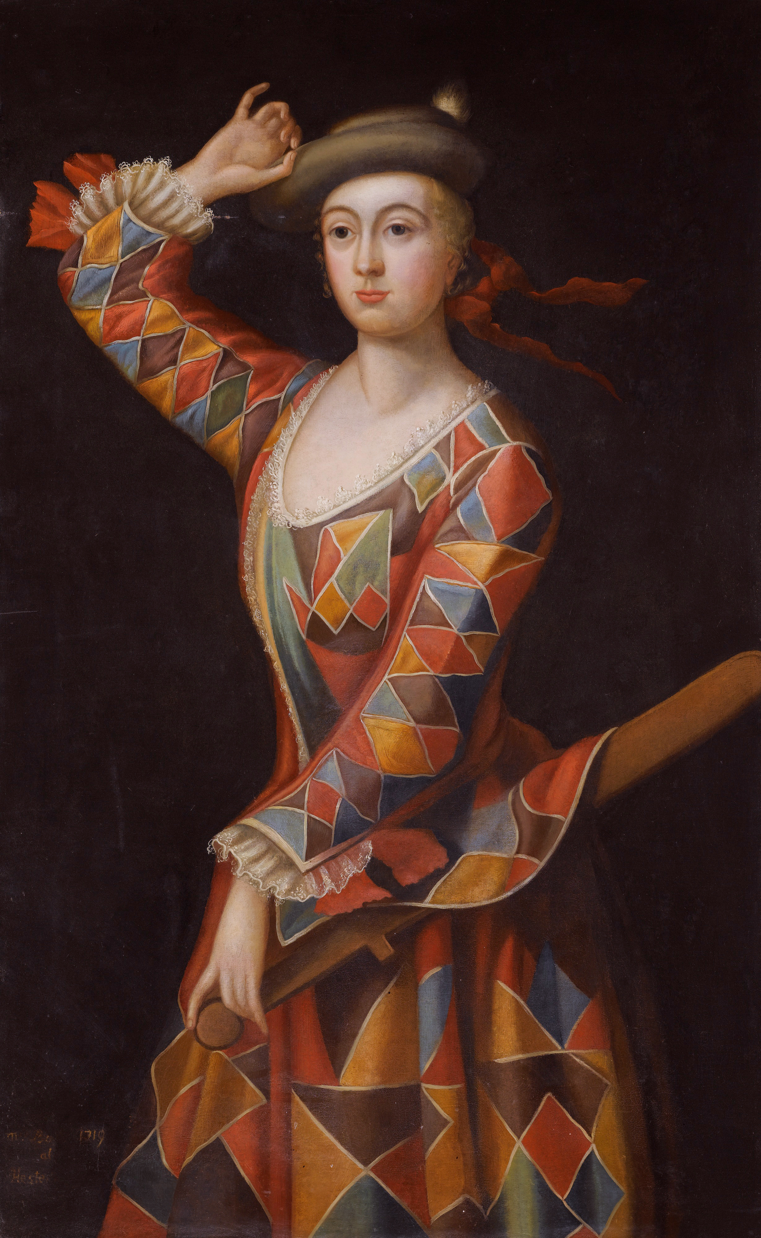 Mrs. Hester Booth, nee Santlow (c.1690–1773) dressed as a harlequin oil on canvas 122 x 77 cm inscribed l.l.:Mrs Bo... 1719 / al / Hester